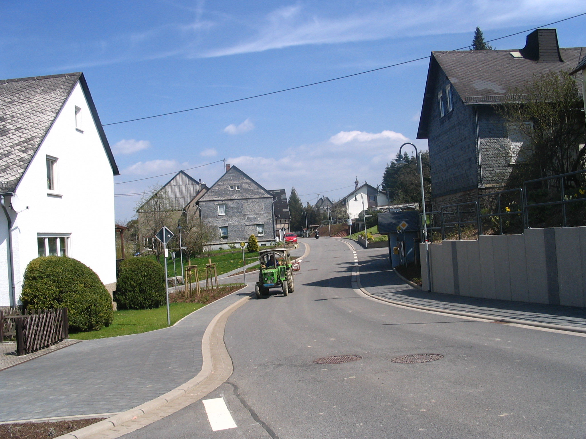 Village Hecken in the Hunsrück landscape, Germany